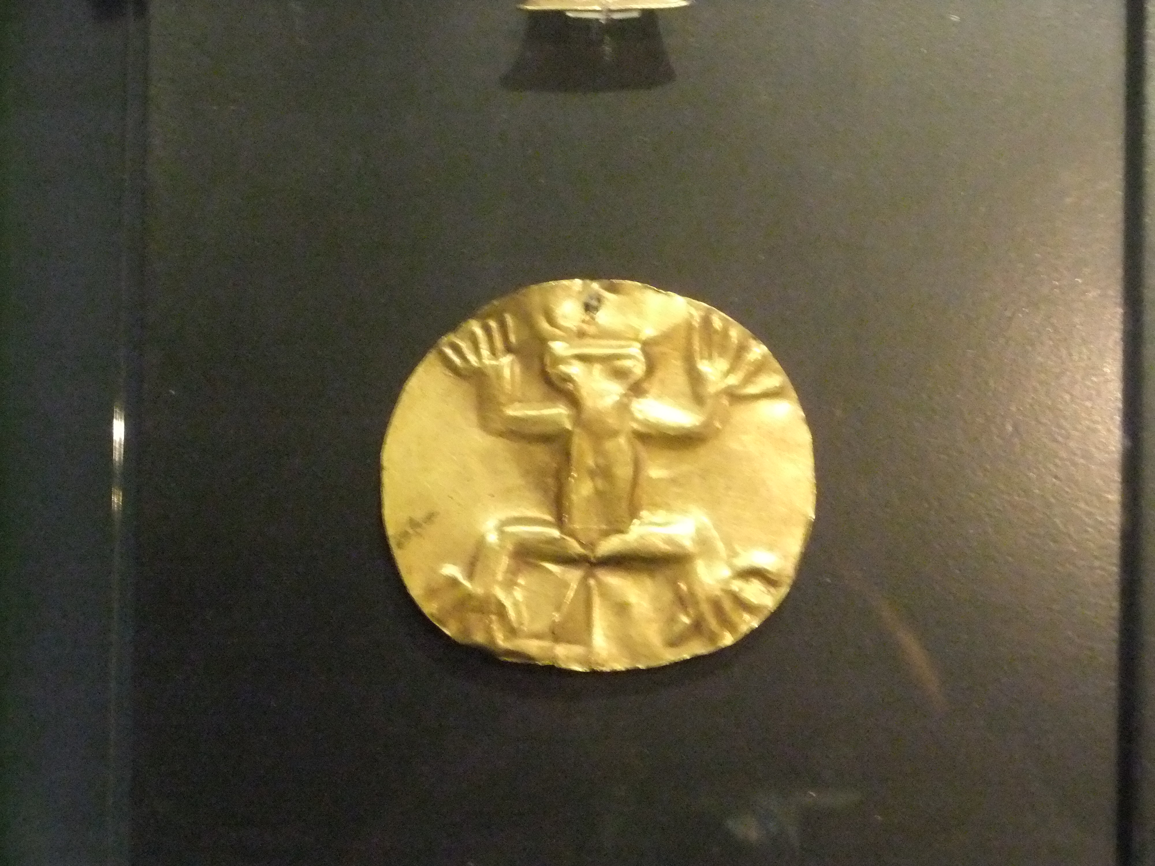 Photo taken at the International Slavery Museum, Liverpool, England.